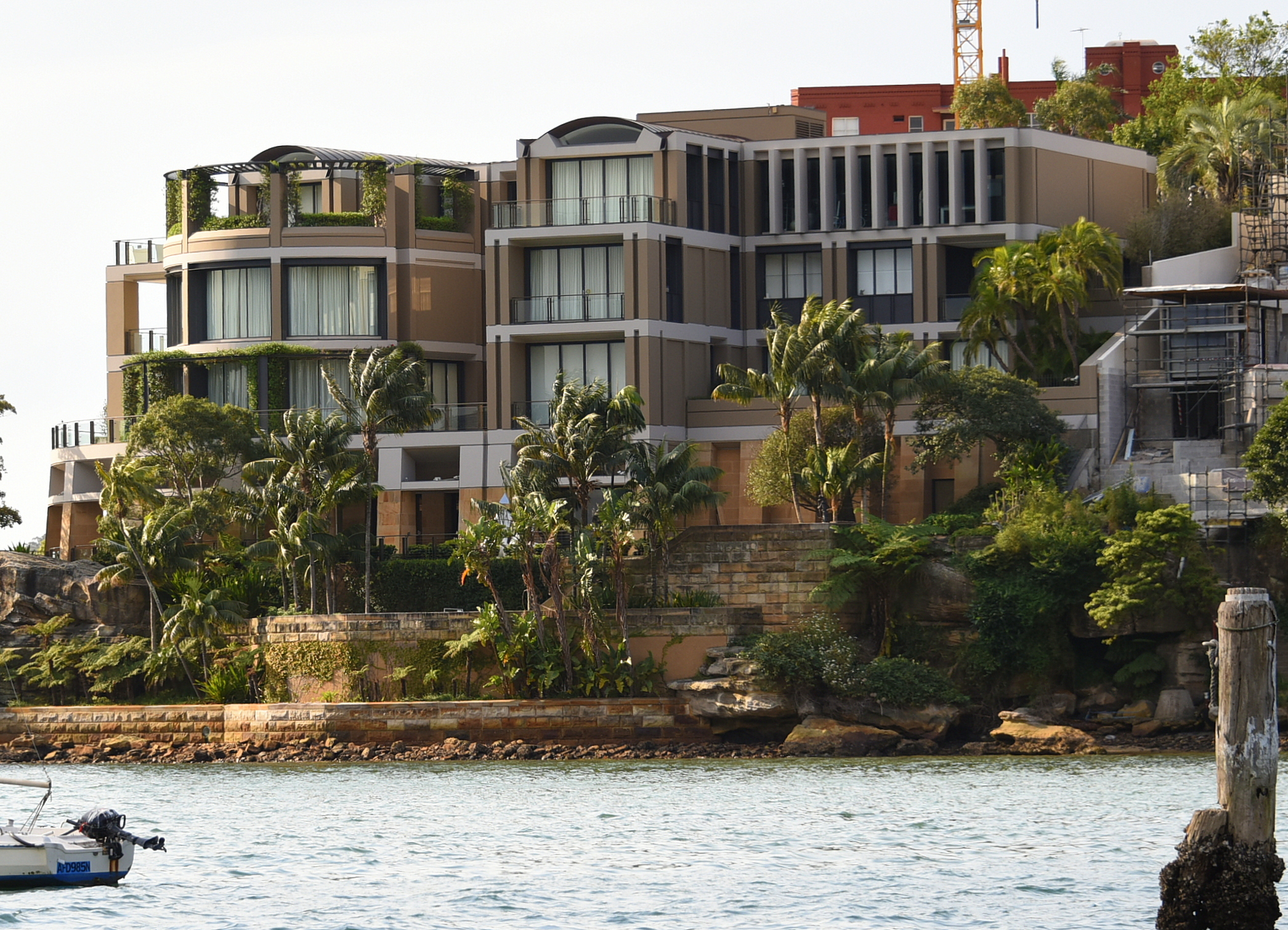 Wingadal, Point Piper, Sydney, seen from Seven Shillings Beach